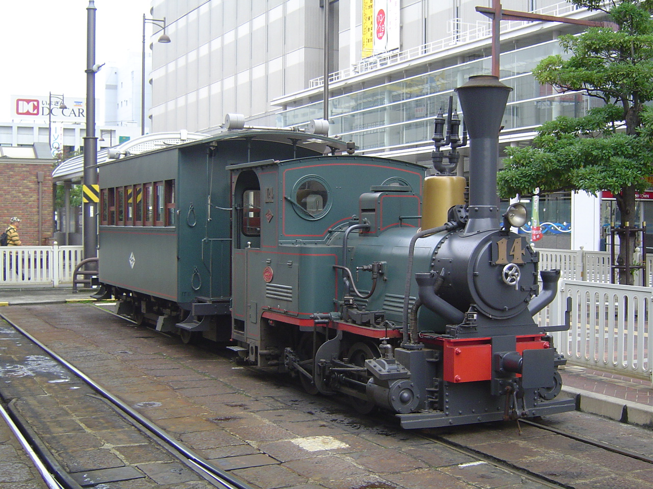 Iyo Railway "Botchan Train No.14". This photo was taken at Matsuyamashi station.